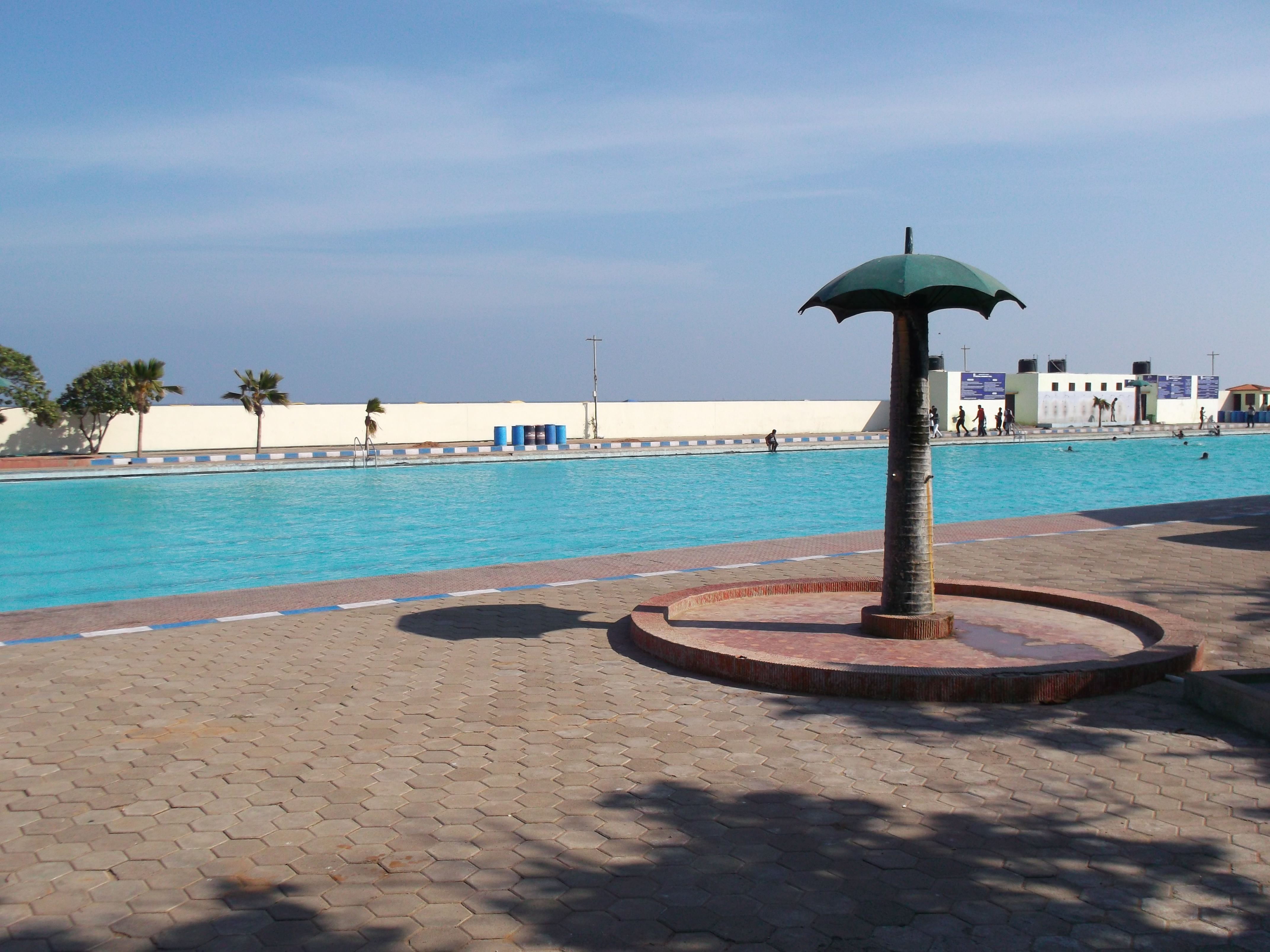 Marina Swimming Pool at Marina Beach, taken on 2-Feb-2013, at 4:00 pm